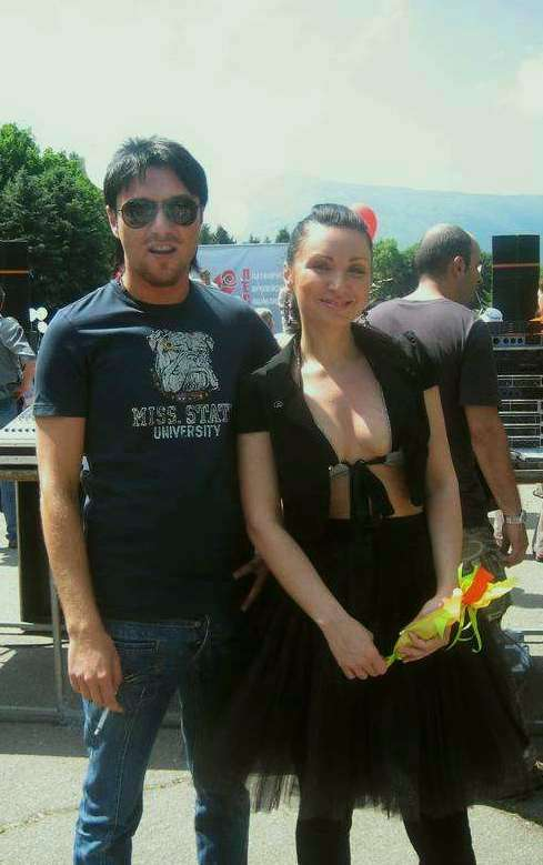 Duo KariZma